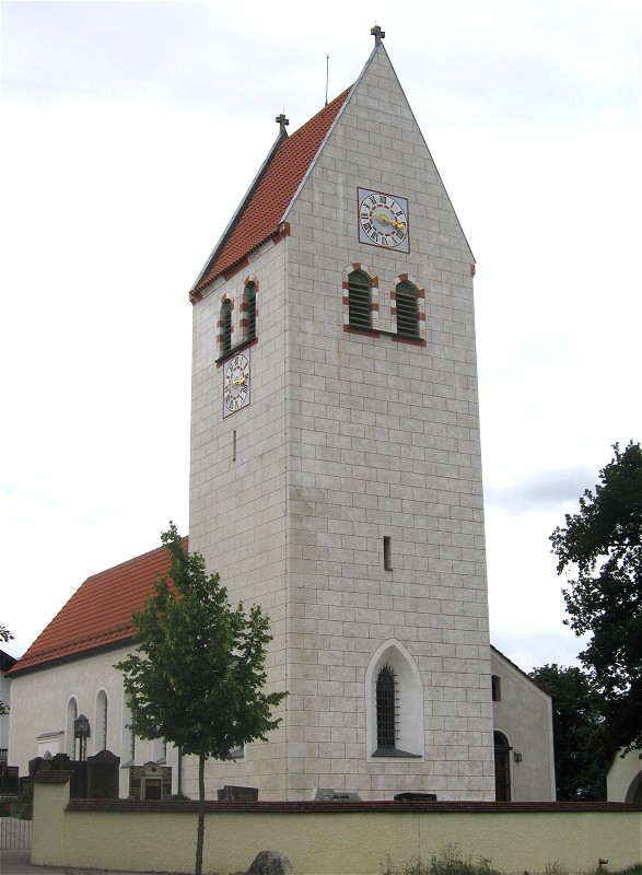 Altkirchen (Sauerlach municipality), view of St Margaret Curate's Church from south-east.